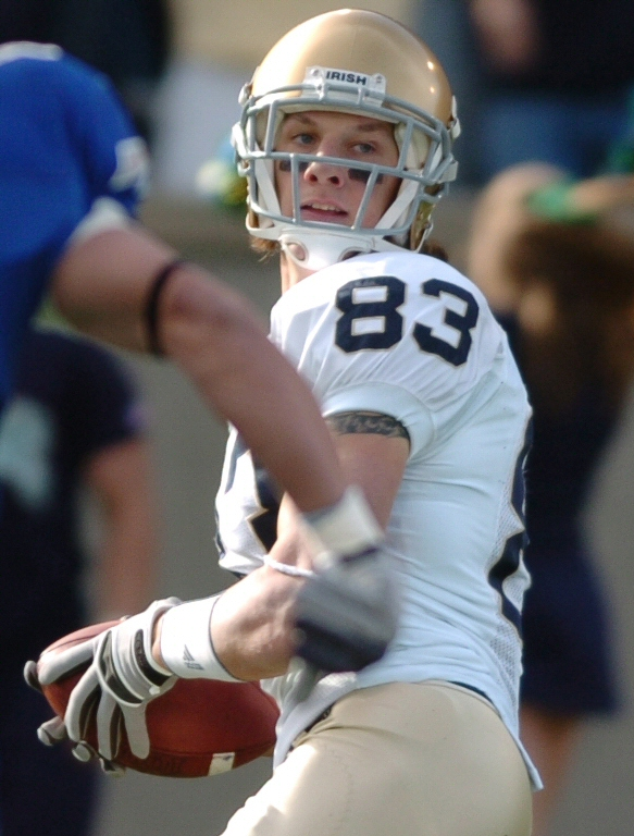 Notre Dame wide receiver Jeff Samardzija (en) catches a 51-yard touchdown pass from quarterback Brady Quinn on the second play of the game at Air Force Saturday. Quinn threw for four touchdowns on the day as the 8th-ranked Irish cruised to victory, 39-17. (U.S. Air Force photo/ 1st Lt. John Ross)